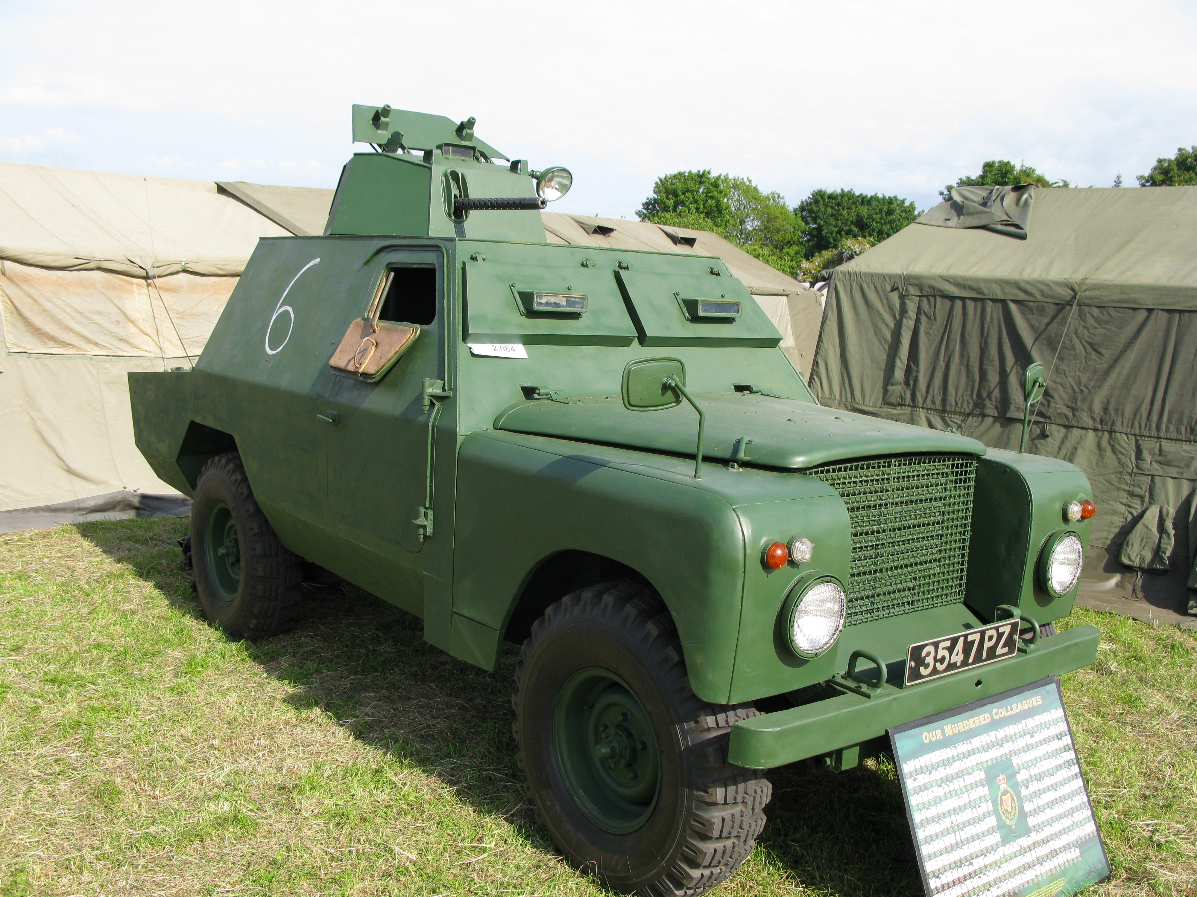 Photo of a Mk1 Shorland armoured car